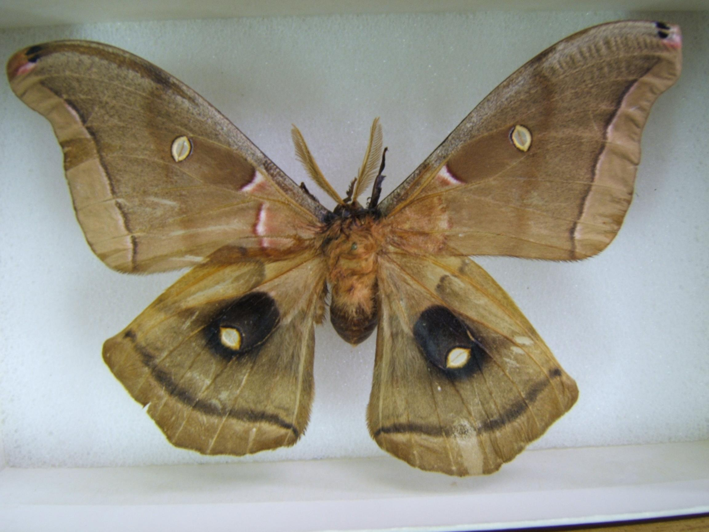 Antheraea polyphemus adult male taken by Shawn Hanrahan at the Texas A&M University Insect Collection in College Station, Texas.